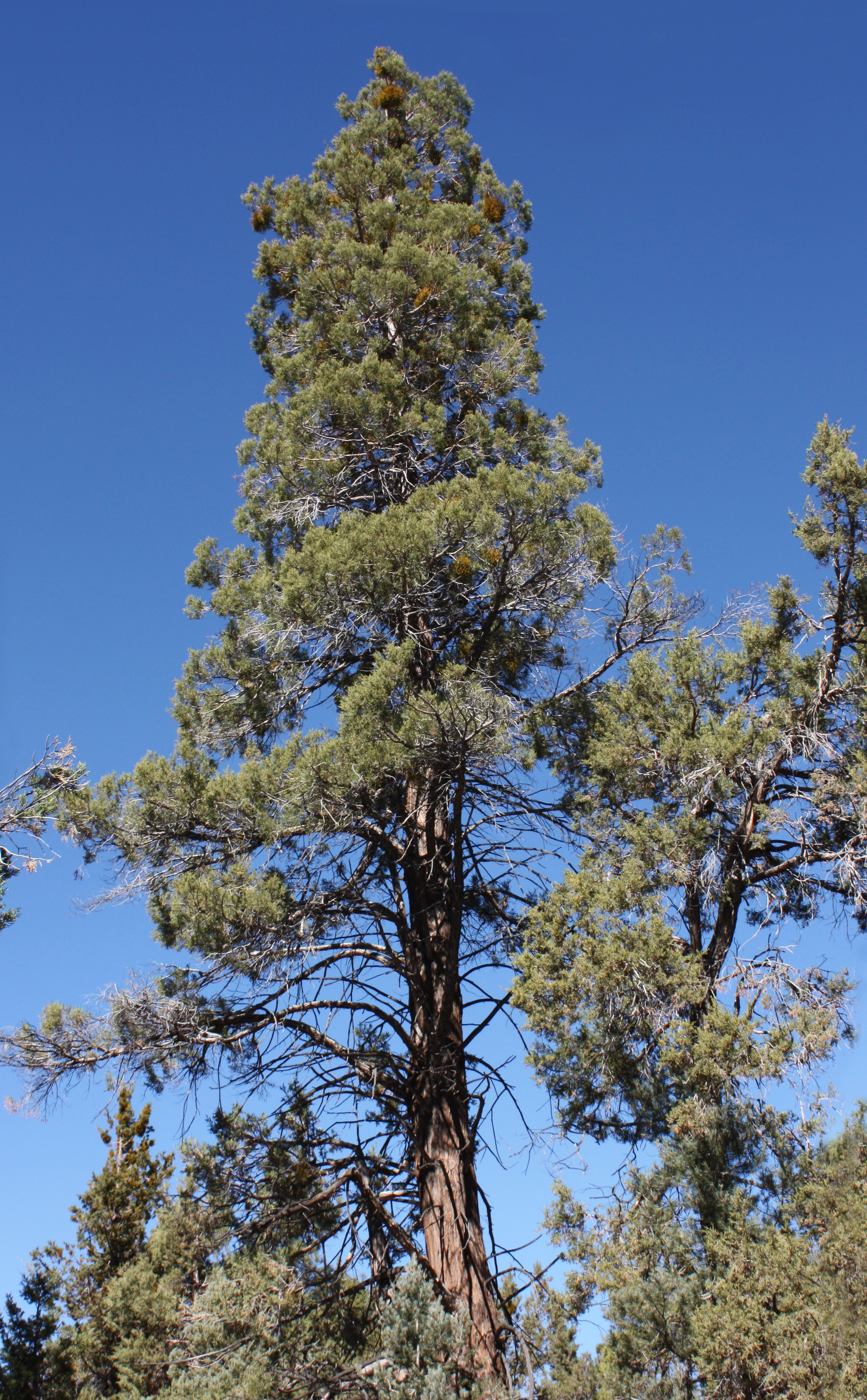 Calocedrus decurrens, Big Bear Lake, San Bernardino Mts., California.